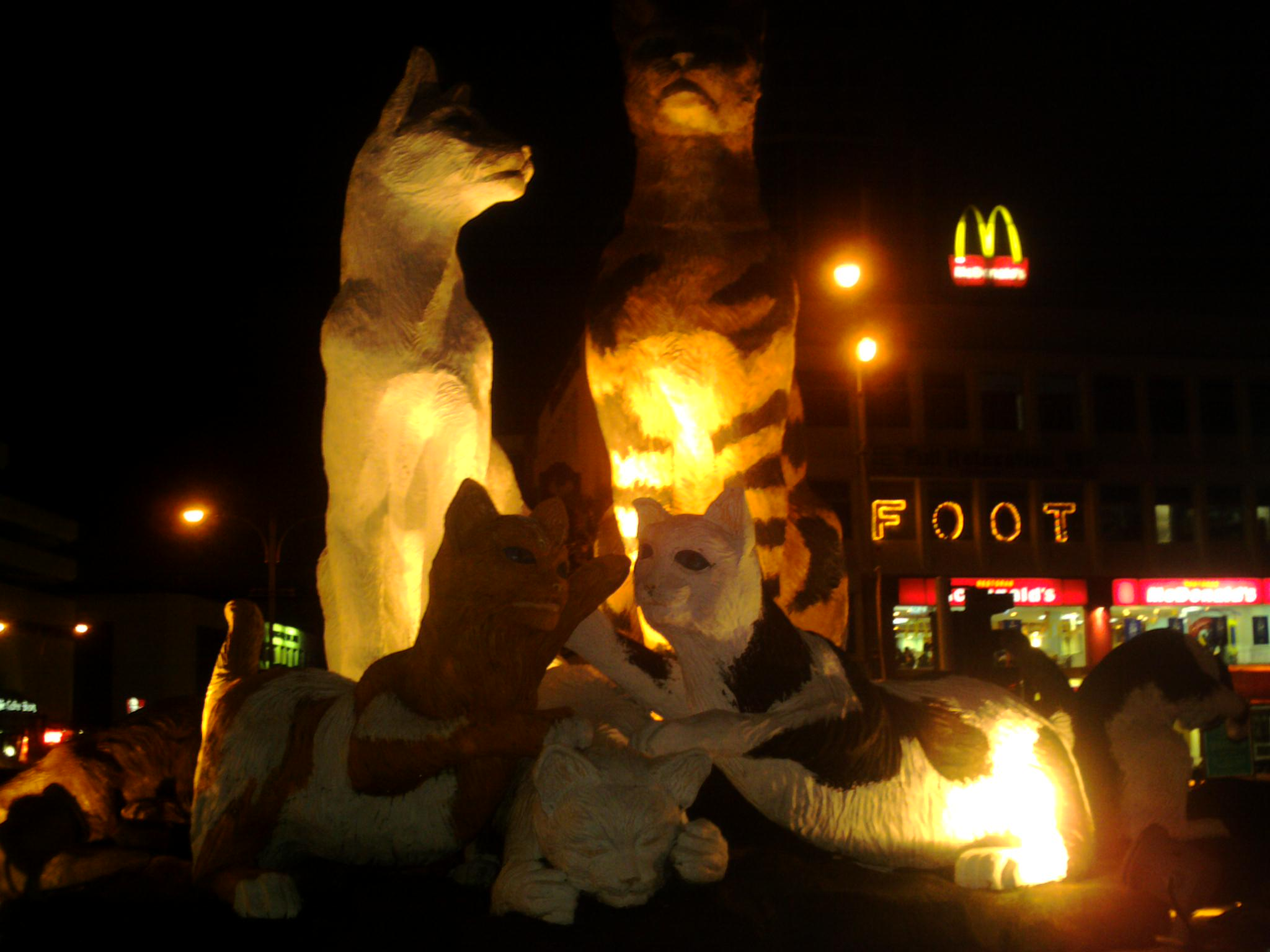 Kuching North City Hall Family Cat Statues